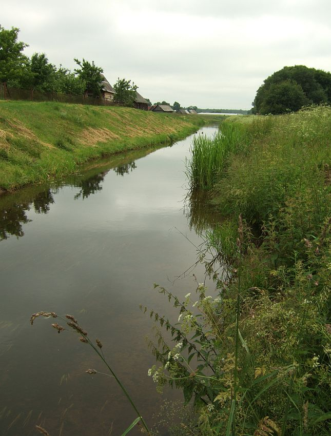 River Spengla in village Kalviai (Lithuania)